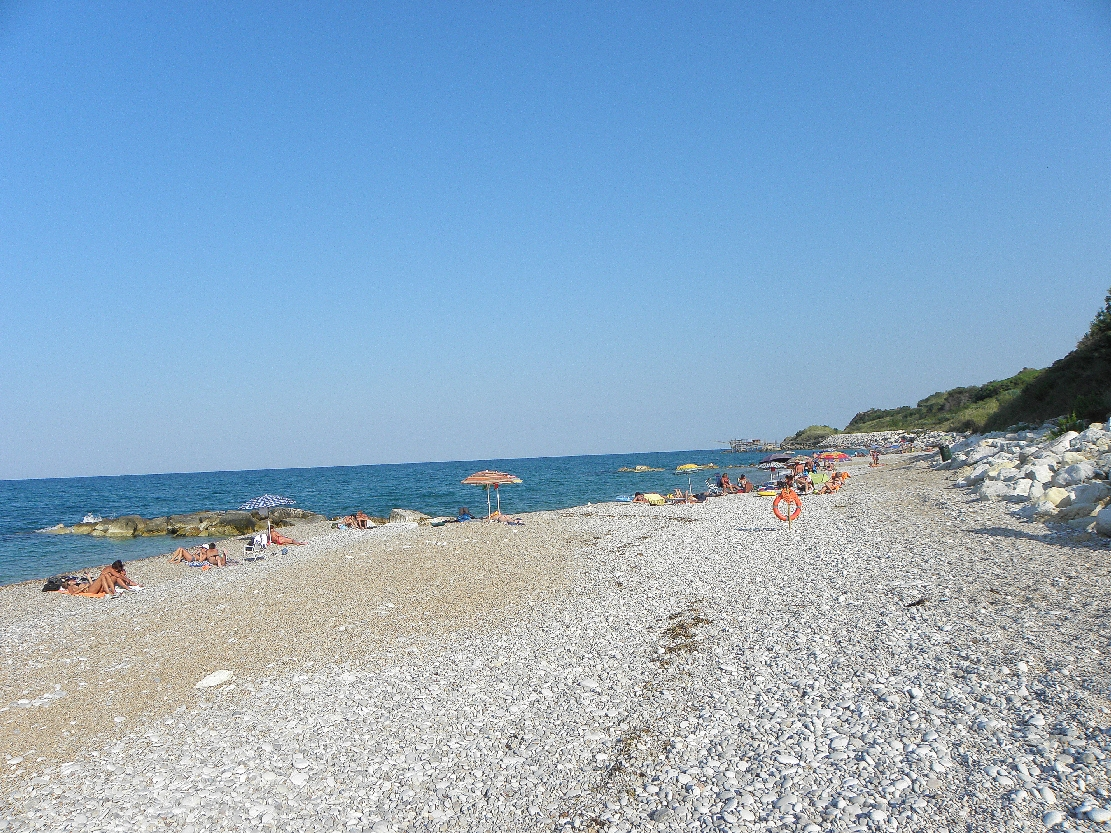 Contrada Foce